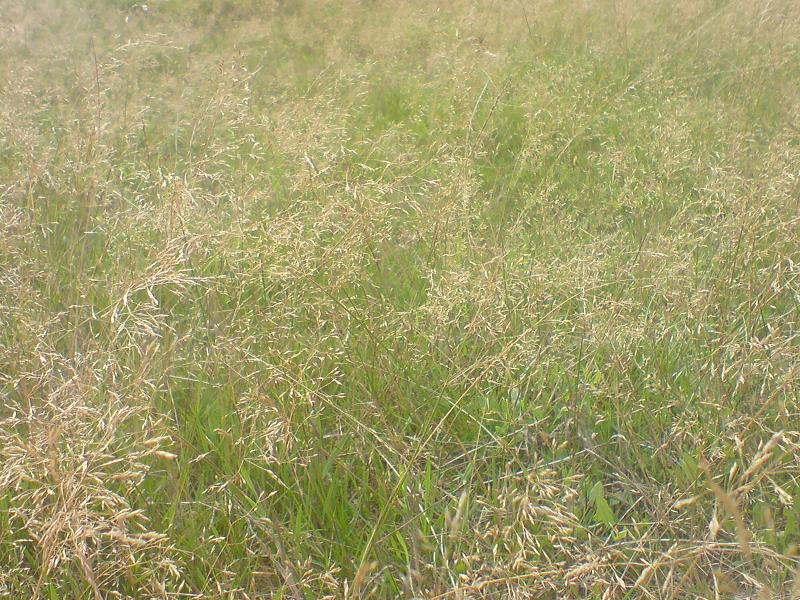 A field of Meadow fescue (Festuca pratensis) in Kew Gardens.